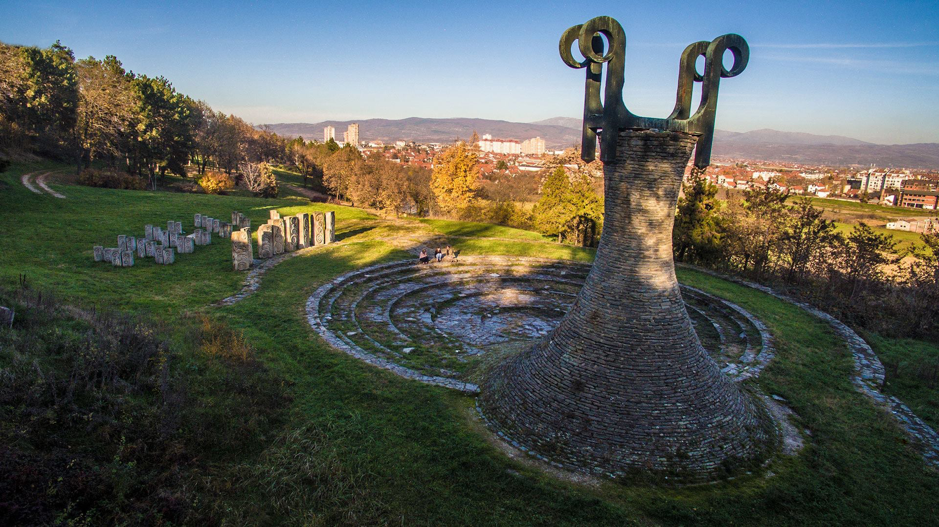 Panoramic view of Leskovac from Hisar Hill